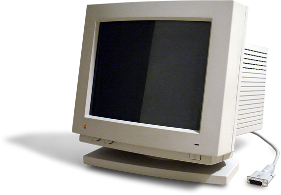 This is a picture I took of my Macintosh Color Display.